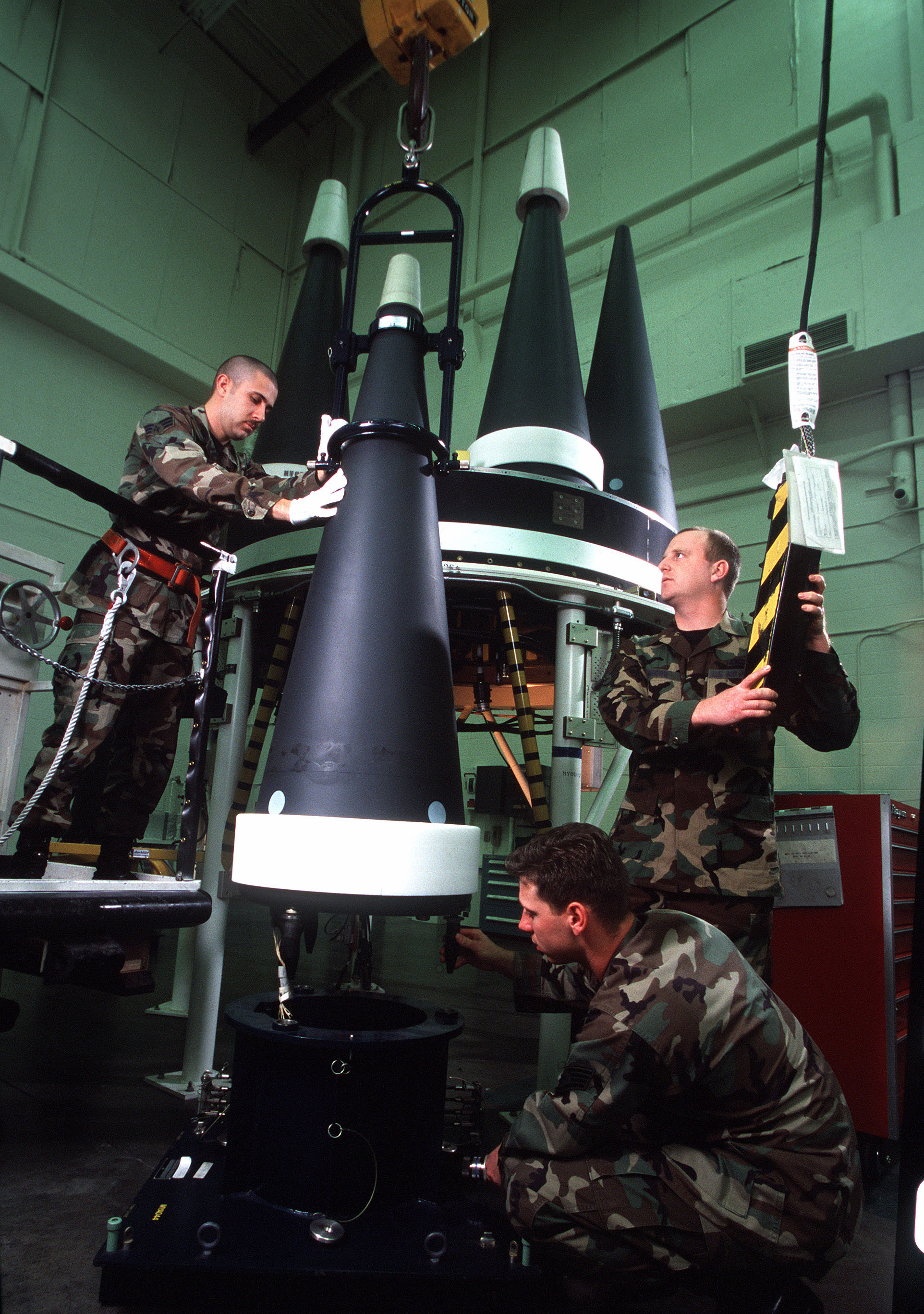 Original caption: US Air Force maintenance crews use a overhead crane and hoist to remove and install warheads from the nose section of a Peacekeeper missile during training at Vandenberg AFB, CA. From Airman Magazine, July 2000 article "Peacekeeper 2000." (Released to Public)